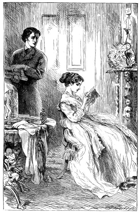 John Rokesmith subtly provokes Bella to visit her parents